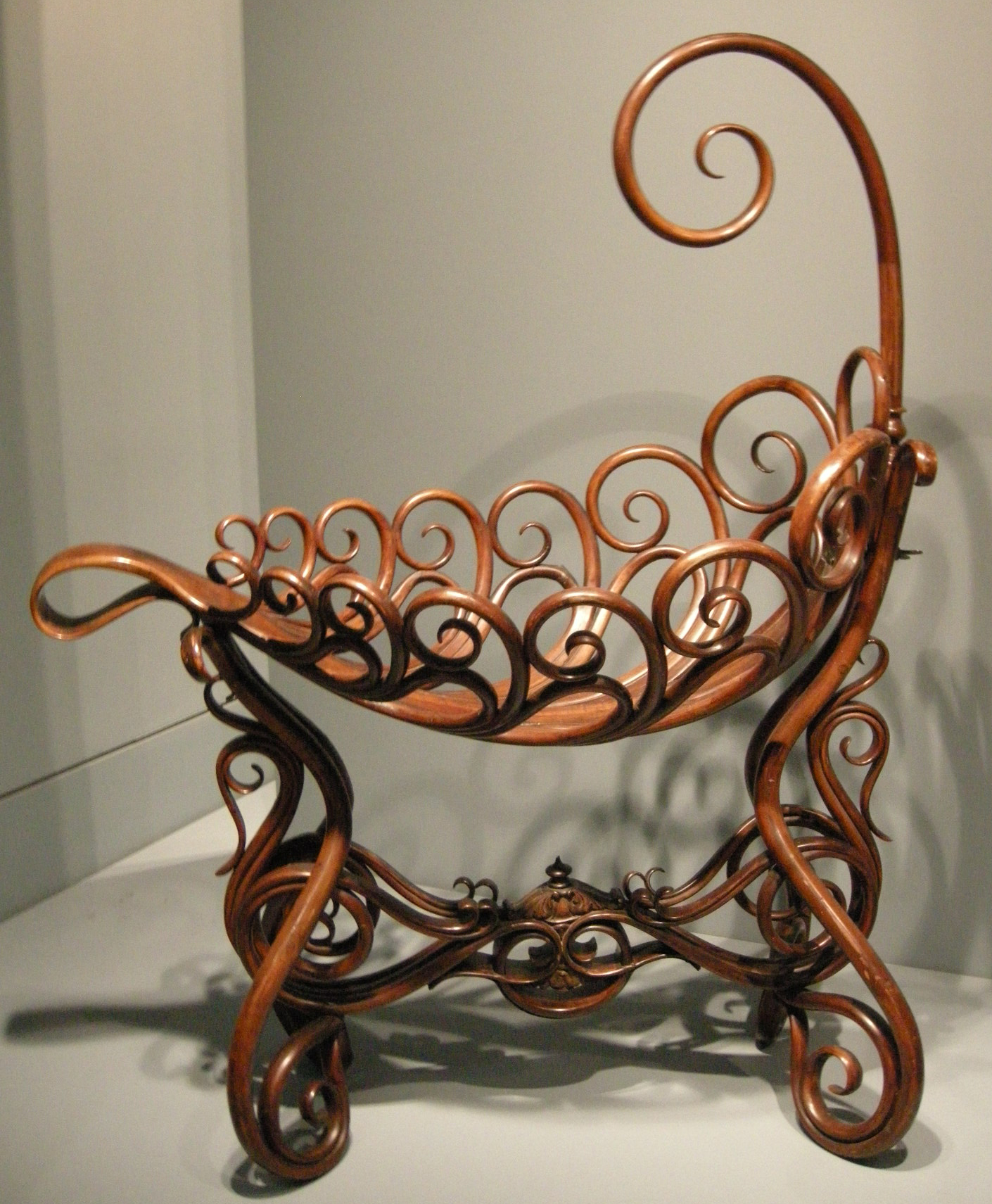 Gebrüder Thonet: Bentwood cradle, about 1870